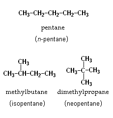 Chemical Structures of the three five carbon alkanes H Padleckas created this image file on November 22, 2005 for use in the article "Pentane" in Wikimedia. H Padleckas 01:17, 23 November 2005 (UTC) Modified by H Padleckas on November 25, 2005 from the previous version. Same license as before. H Padleckas 02:03, 26 November 2005 (UTC)